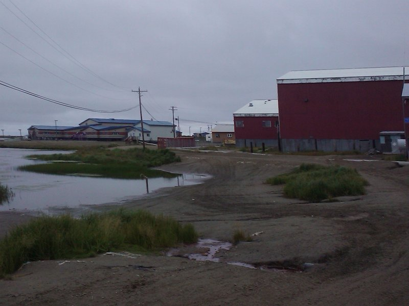 Picture of the current school in Chevak, Alaska; the lake in Chevak; and the old (condemned) school.